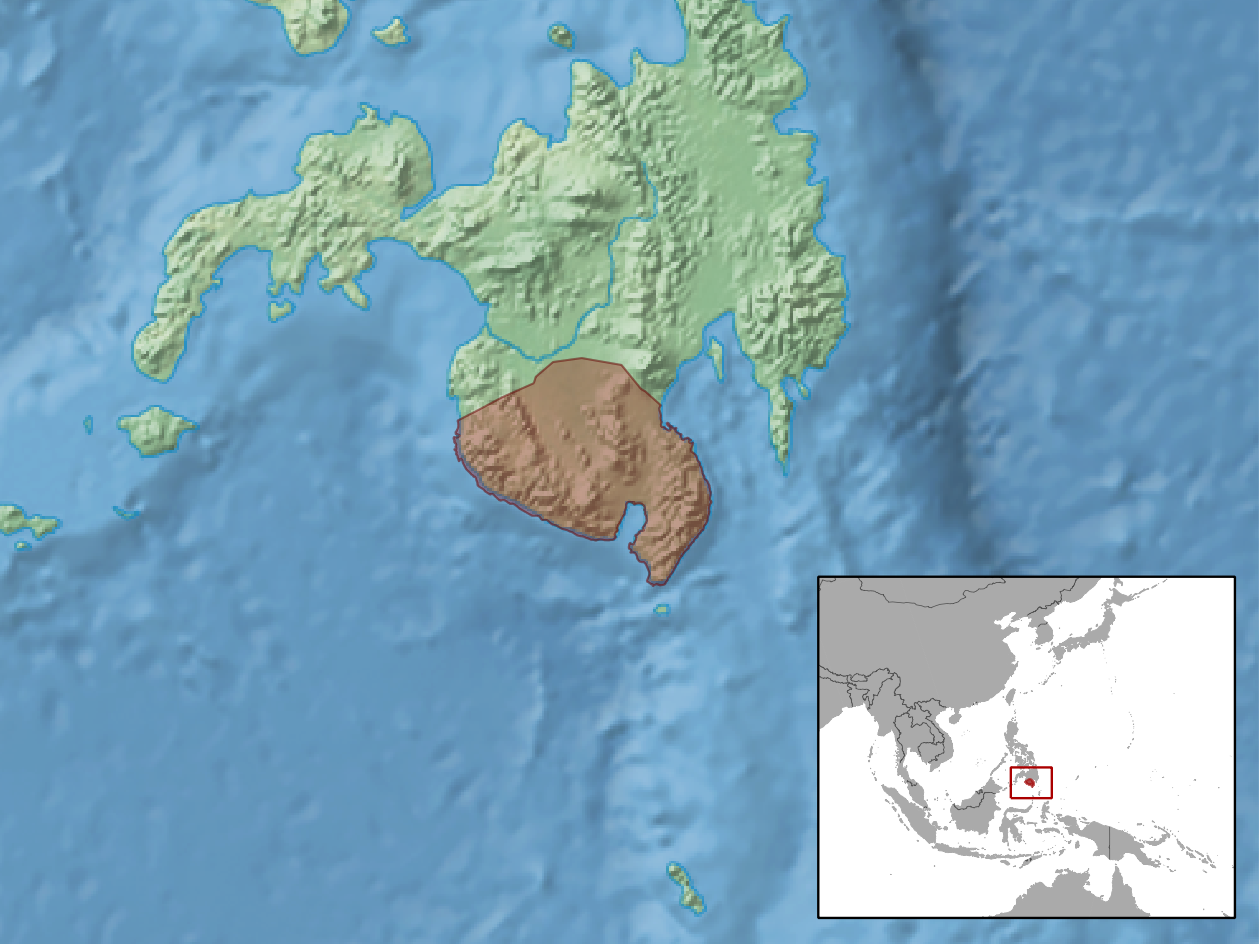 geographic distribution of Brachymeles pathfinderi